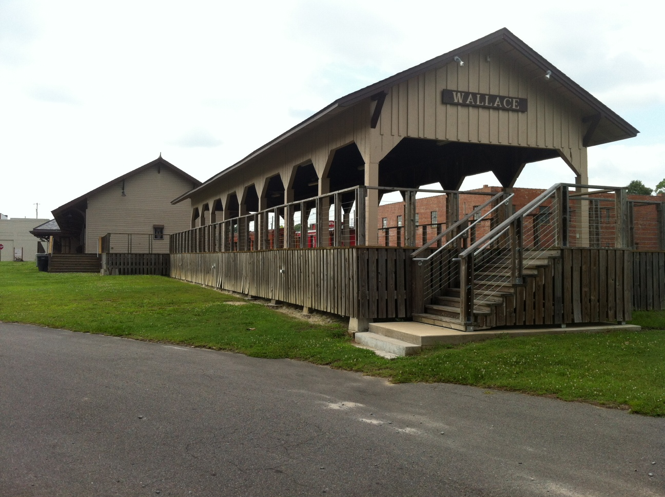 Wallace, NC June 2013 Freight Platform.